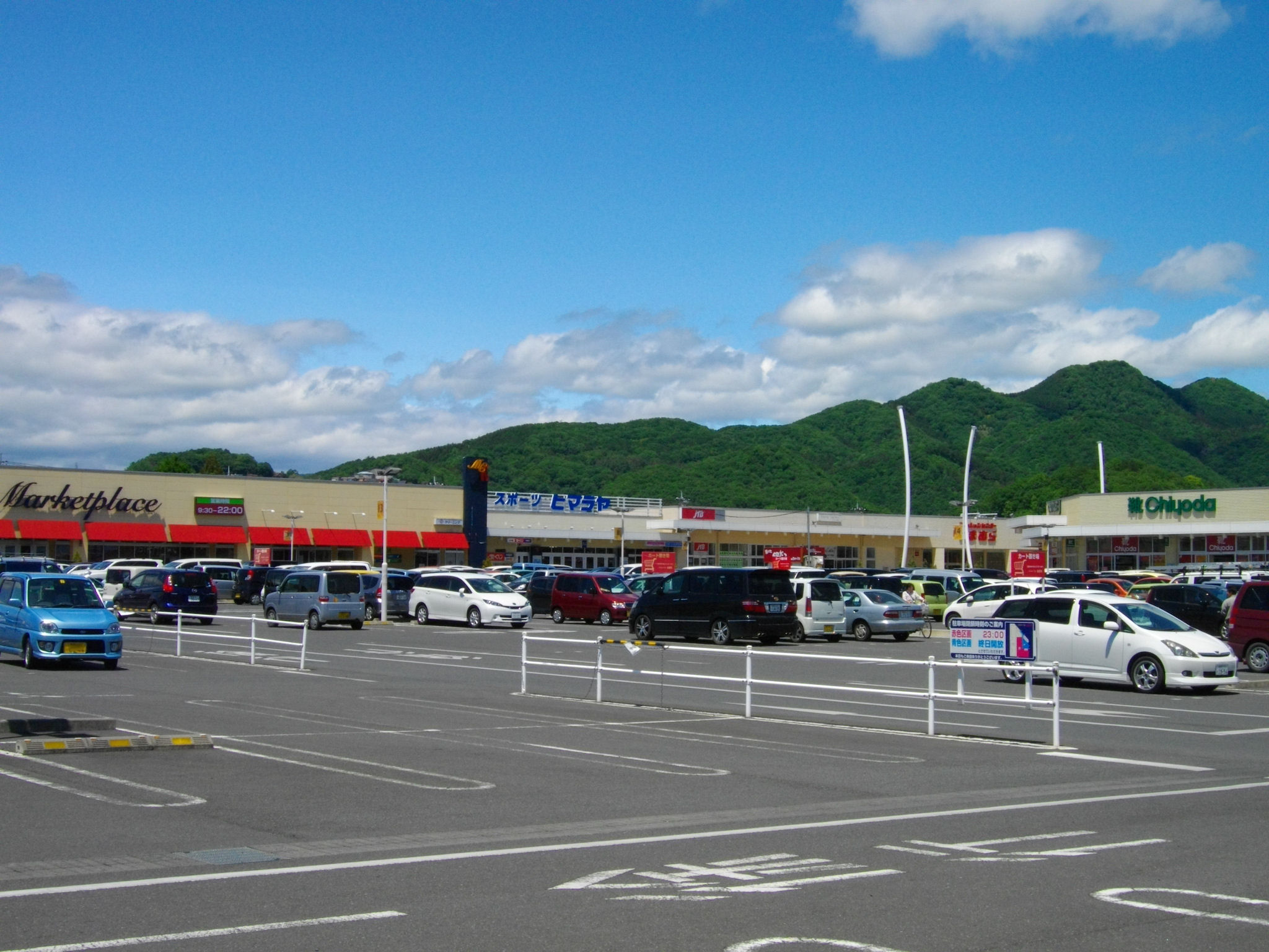 Market City Kiryu